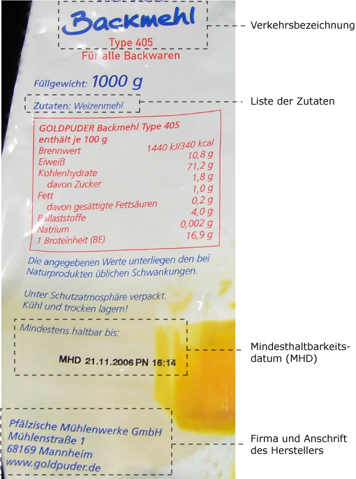 Elements of German/EU Food labelling Regulations